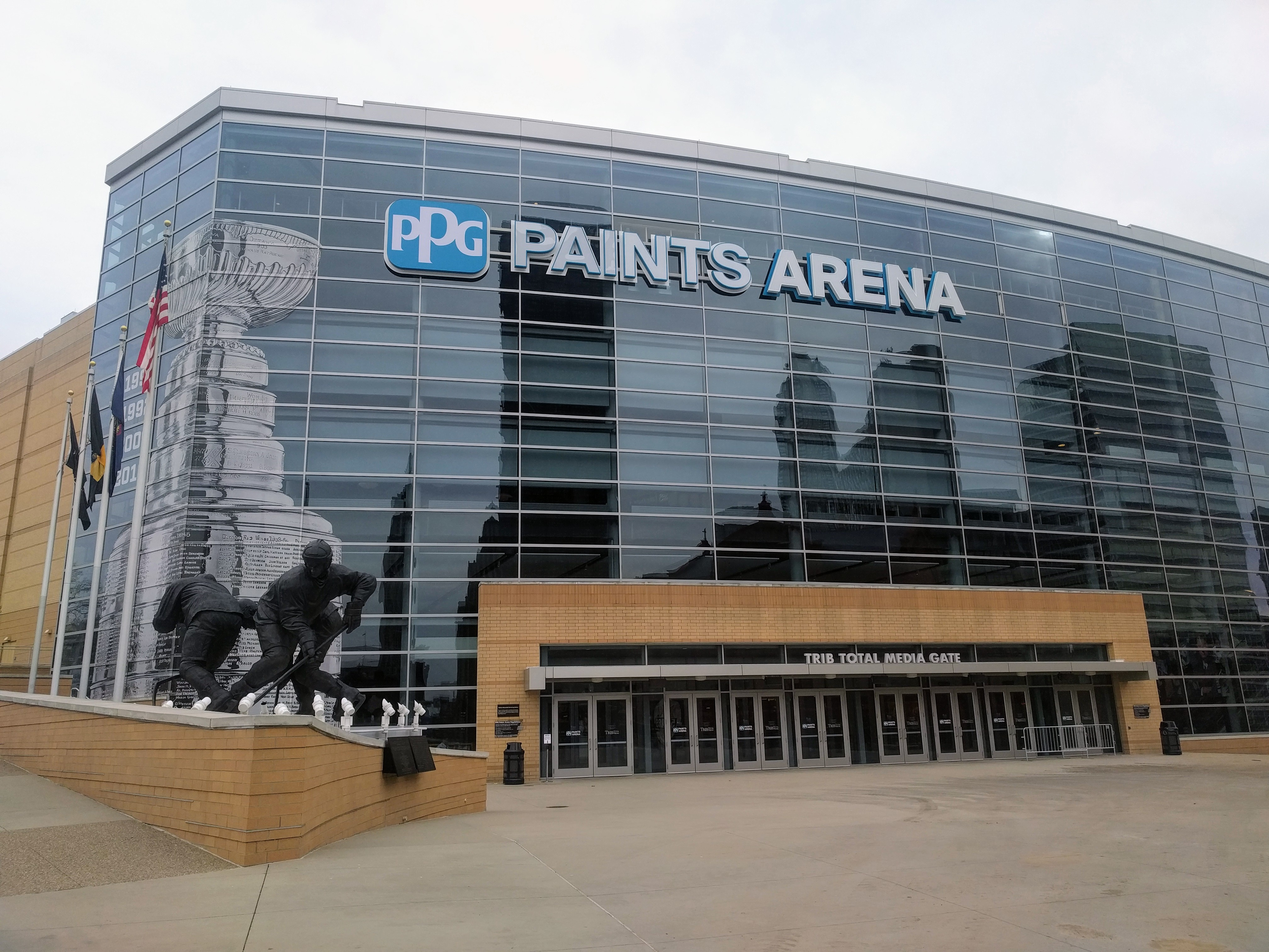 Photograph of PPG Paints Arena with newly installed permanent sign